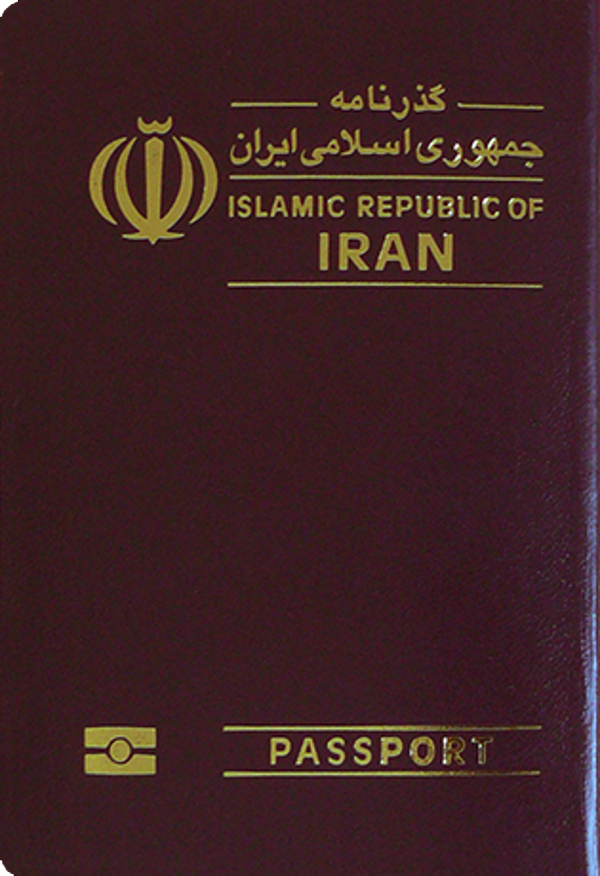 new passport cover look with Biometric singe.